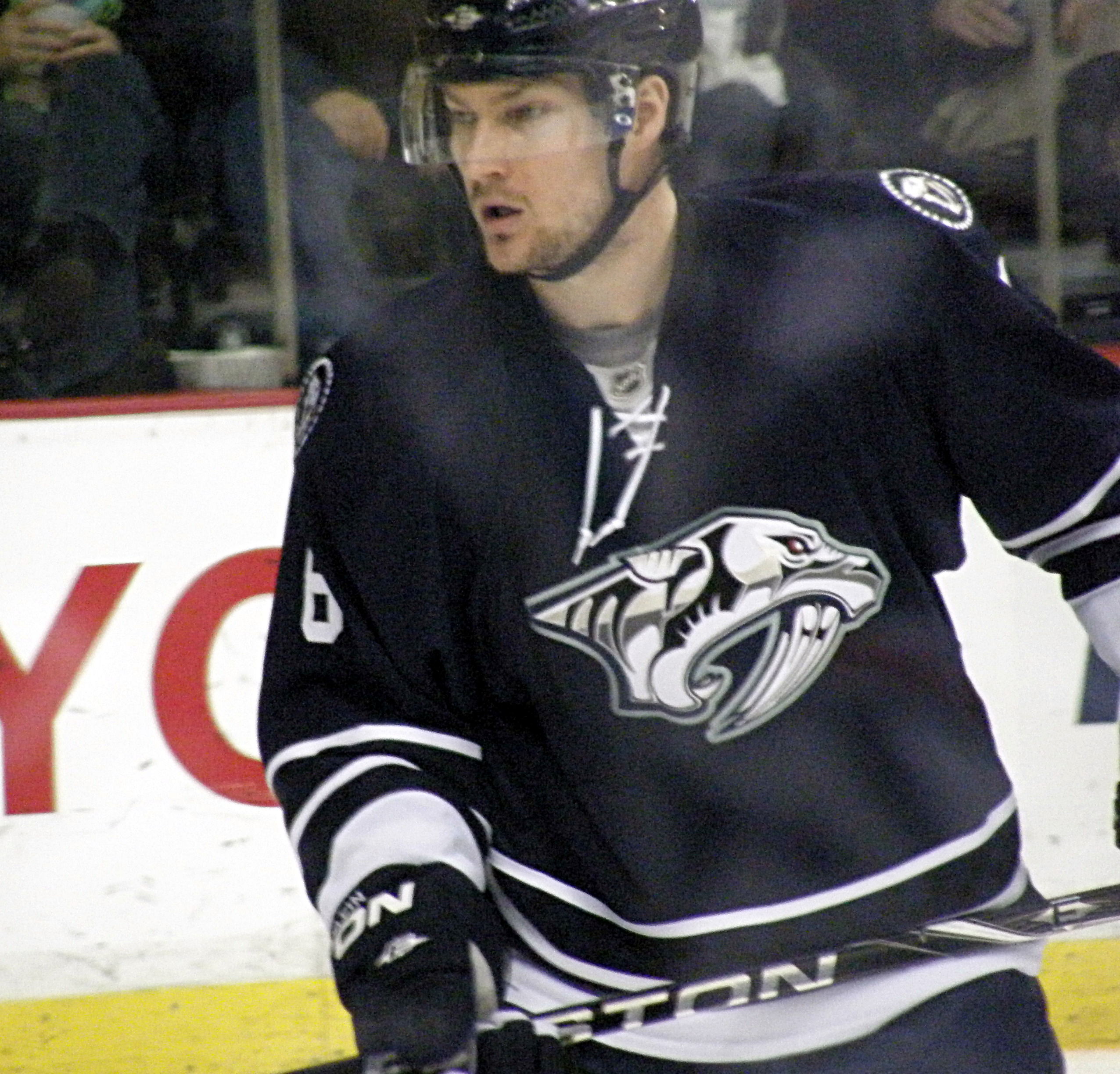 Kevin Klein Nashville Predators jersey.